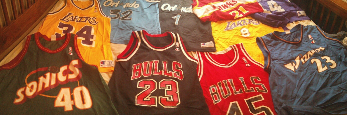 A sports fan's collection of NBA Jerseys